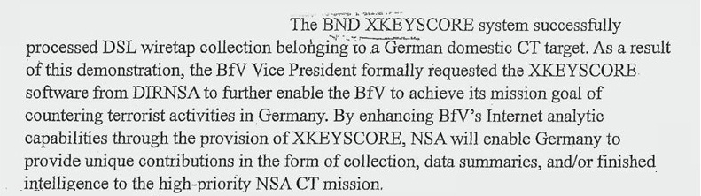 Excerpts of an NSA document indicating cooperation between the NSA, the BND and the Office for the Protection of the Constitution, Germany's domestic intelligence agency.